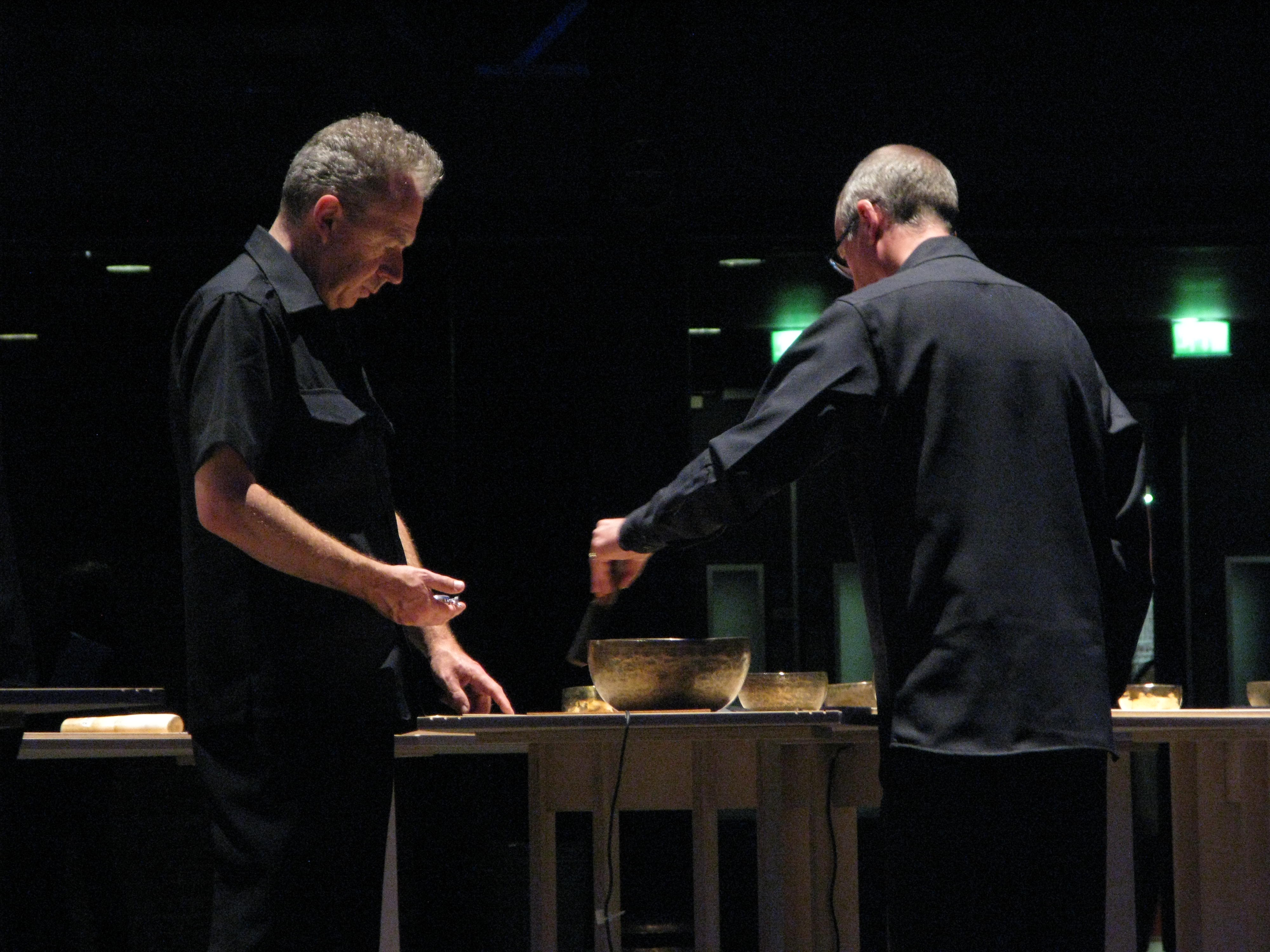 Longplayer live